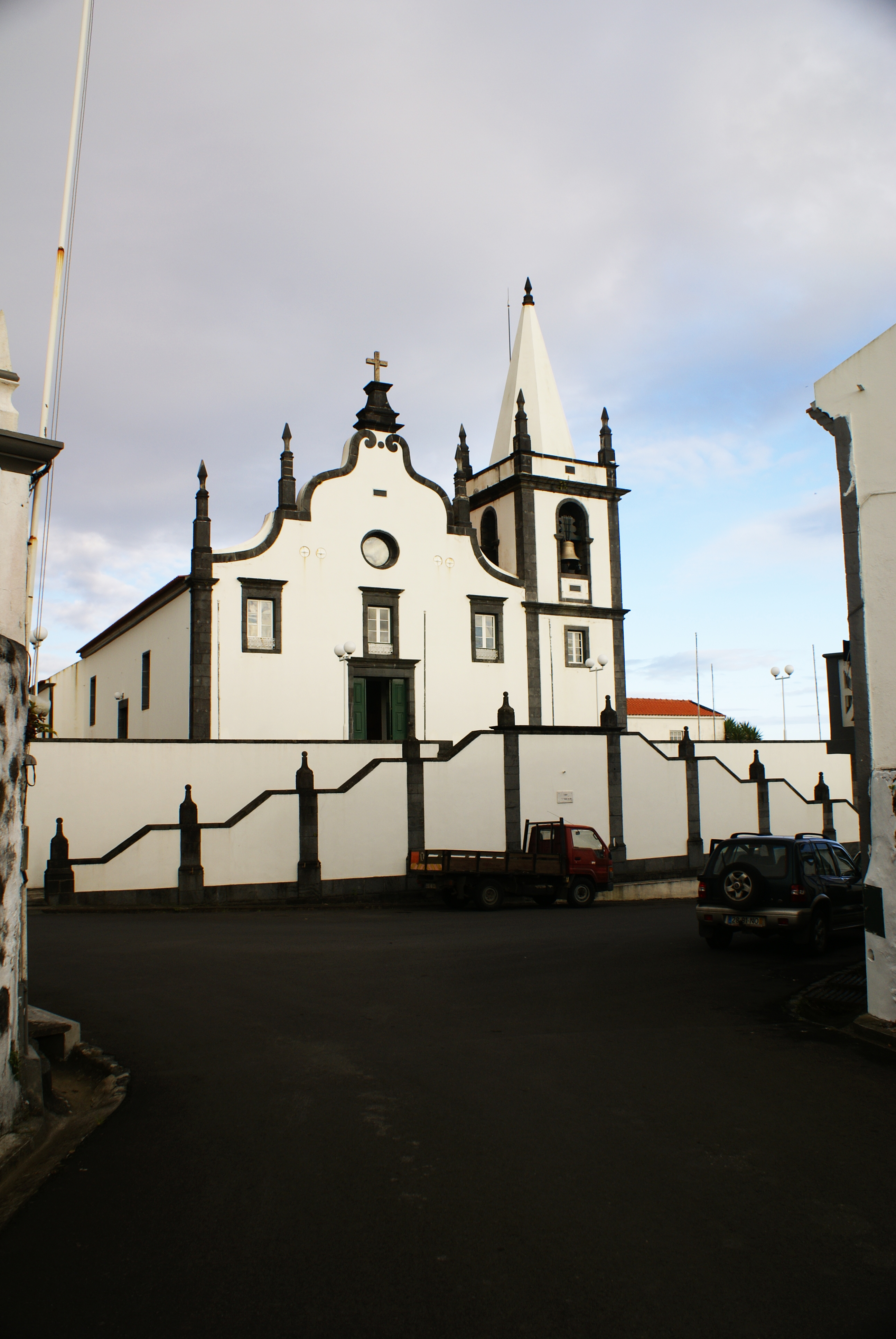 Igreja de Santa Catarina, fachada, Castelo Branco, concelho da Horta, ilha do Faial, Açores, Portugal